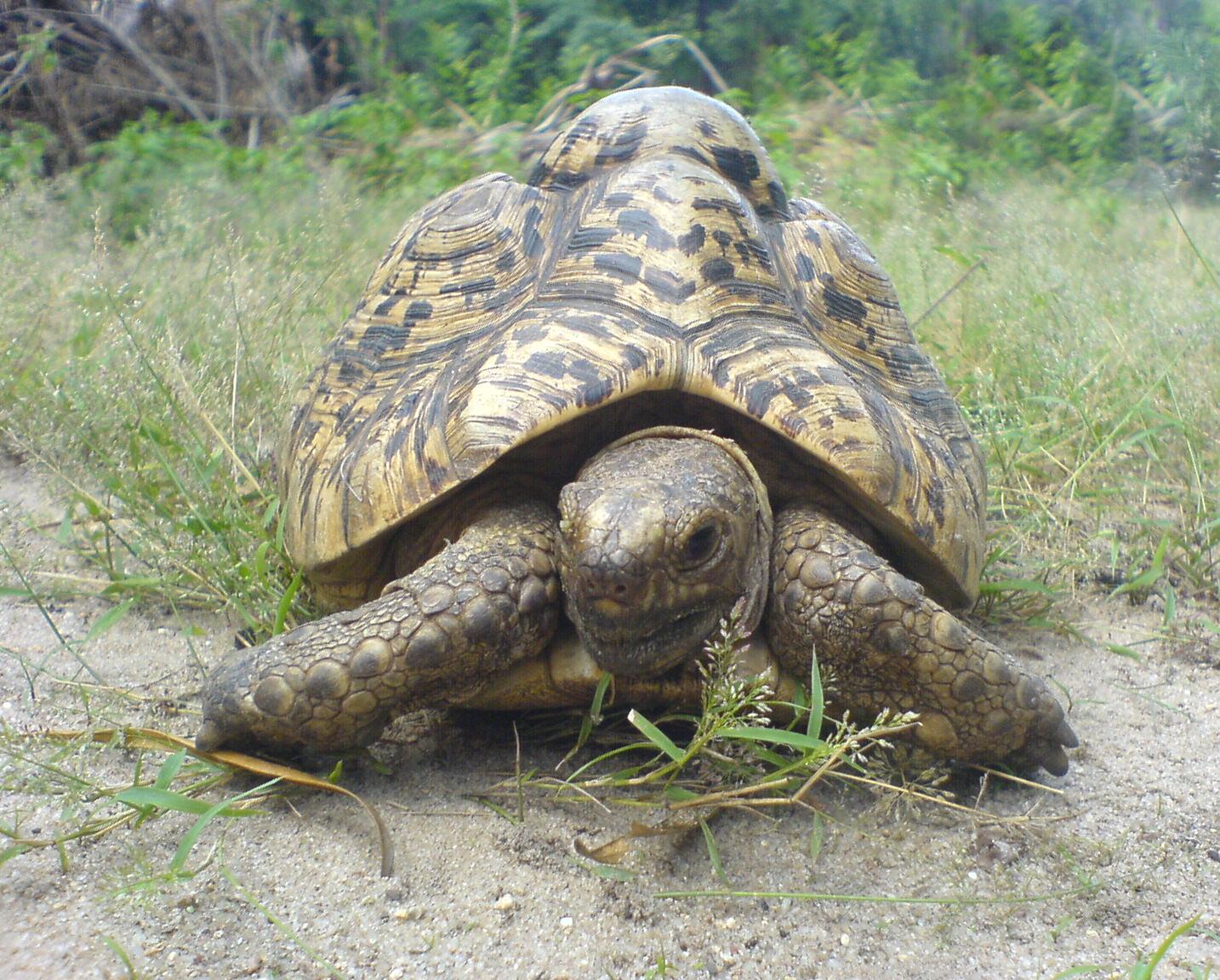 A close-up view picture of a Leopard Tortoise.